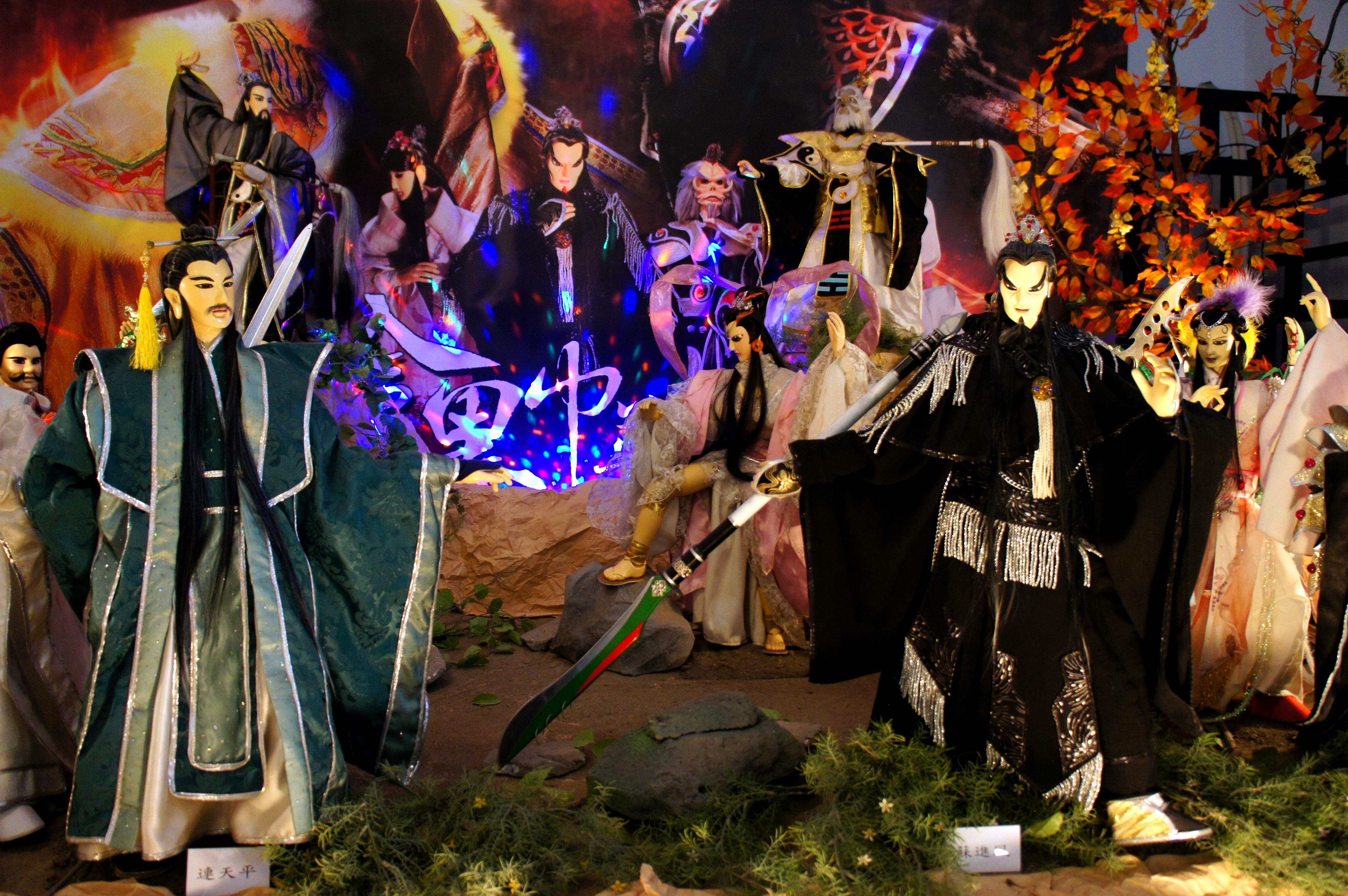 A display inside the Yunlin Hand Puppet Museum, Huwei, Yunlina, Taiwan.